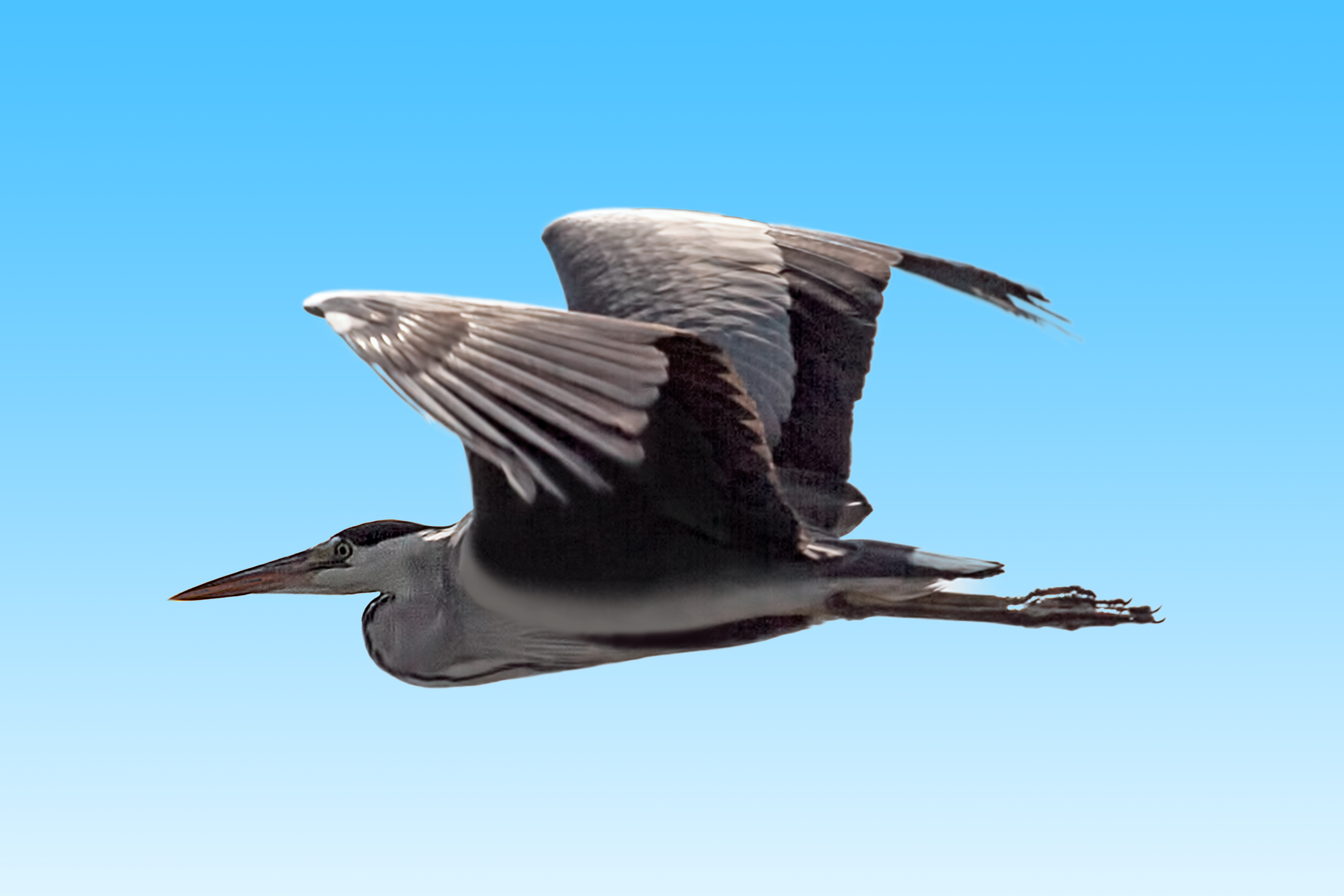 Ardea cinerea near Vaxholm, Sweden, June 2013